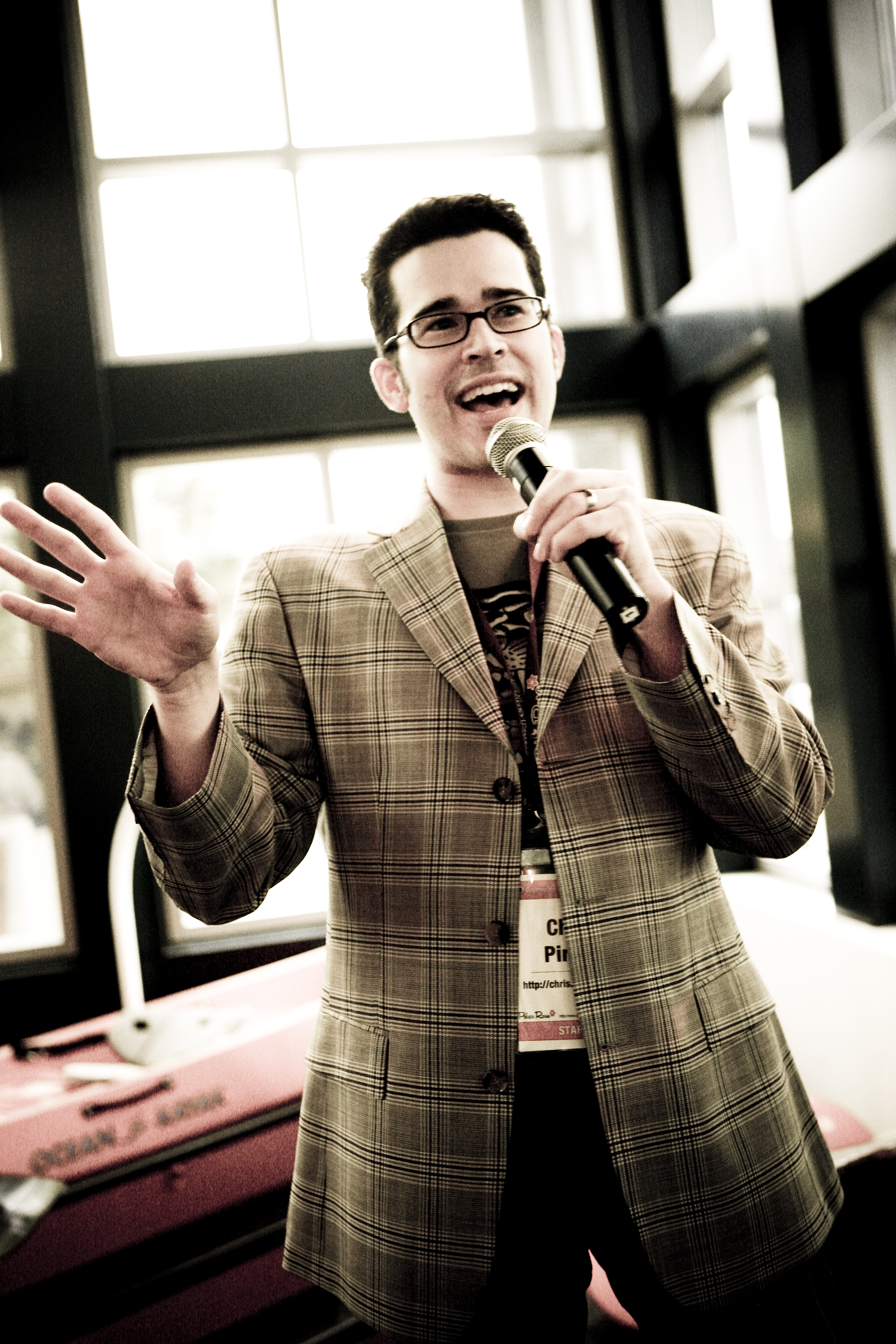 Chris Pirillo speaking at the Seattle Gnomedex in 2007. Photograph by Kris Krug (